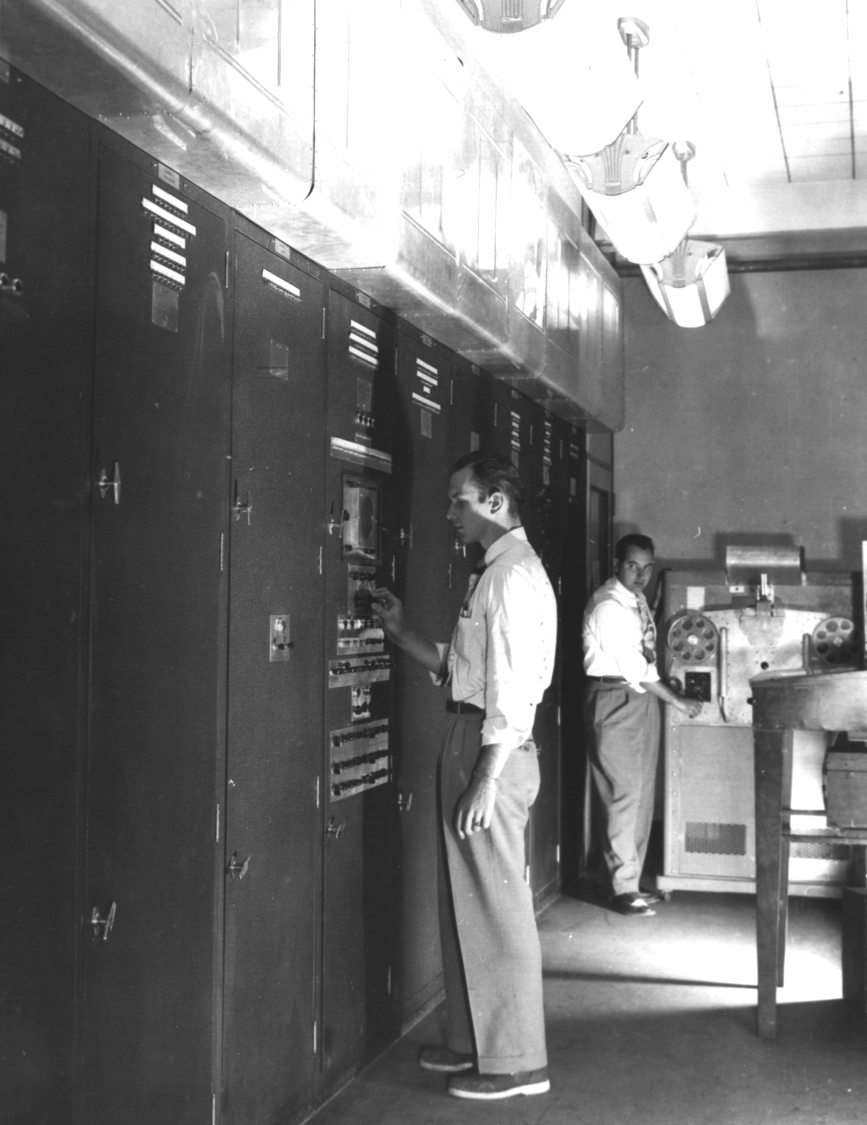 U.S. Army Photo of EDVAC as installed in BRL building 328. Man at the console: ? Man at the paper tape machine: Richard Bianco.